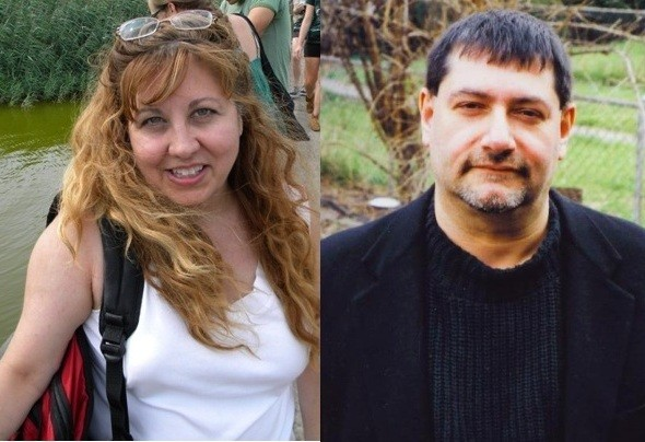 Cleo Coyle is the pen name for married authors Alice Alfonsi and Marc Cerasini.